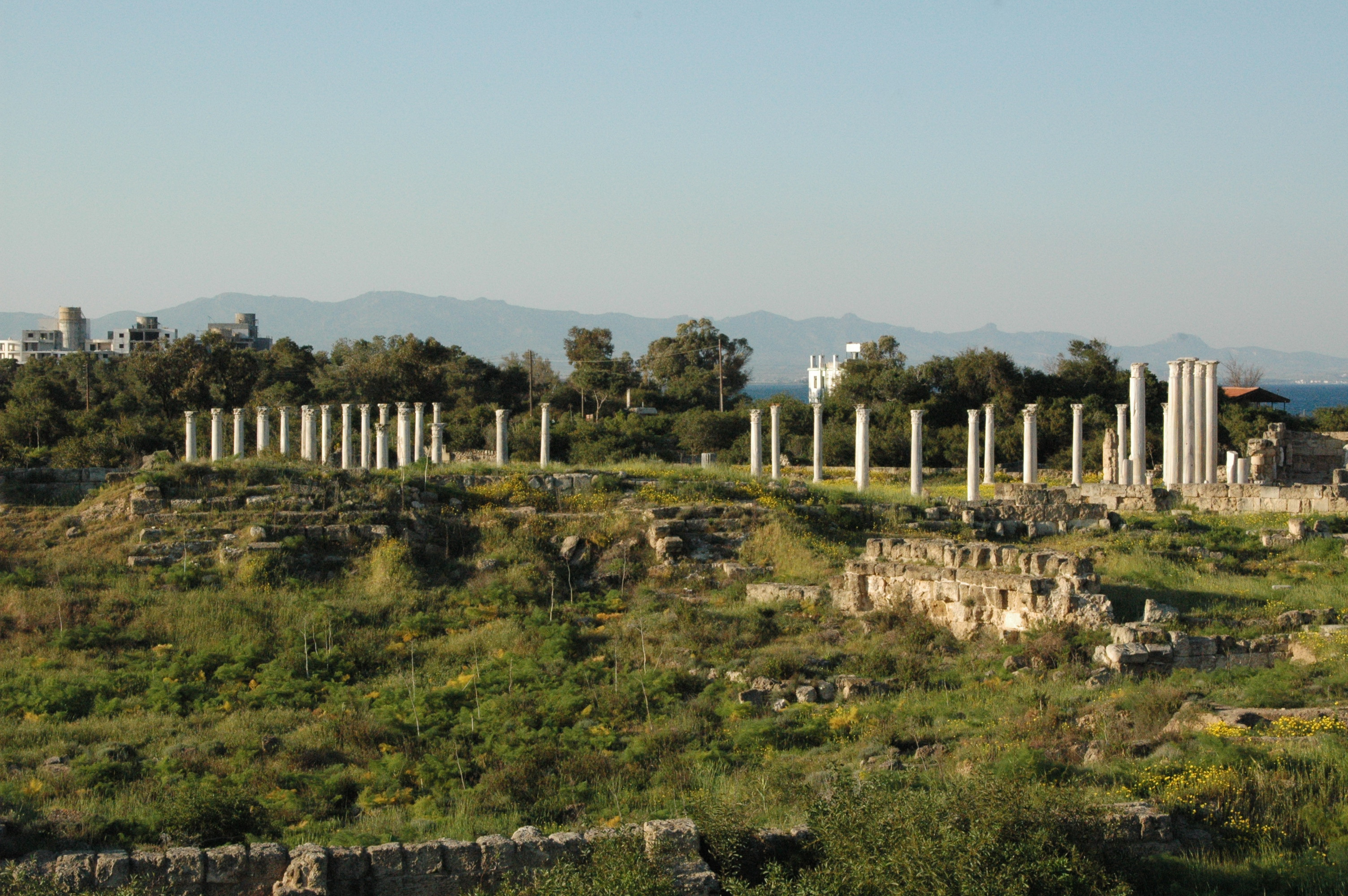 Salamis was an ancient city-state on the east coast of Cyprus, at the mouth of the river Pedieos, 6 km north of modern Famagusta, North Cyprus.